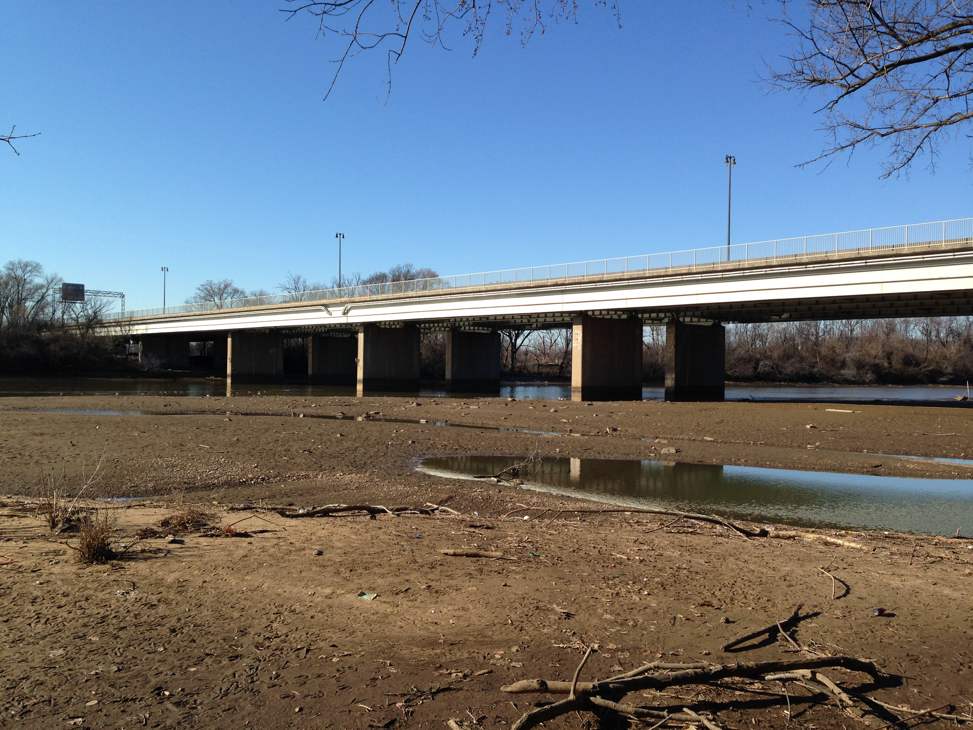 The Whitney Young Memorial Bridge over the Anacostia River in Washington, DC in January 2015